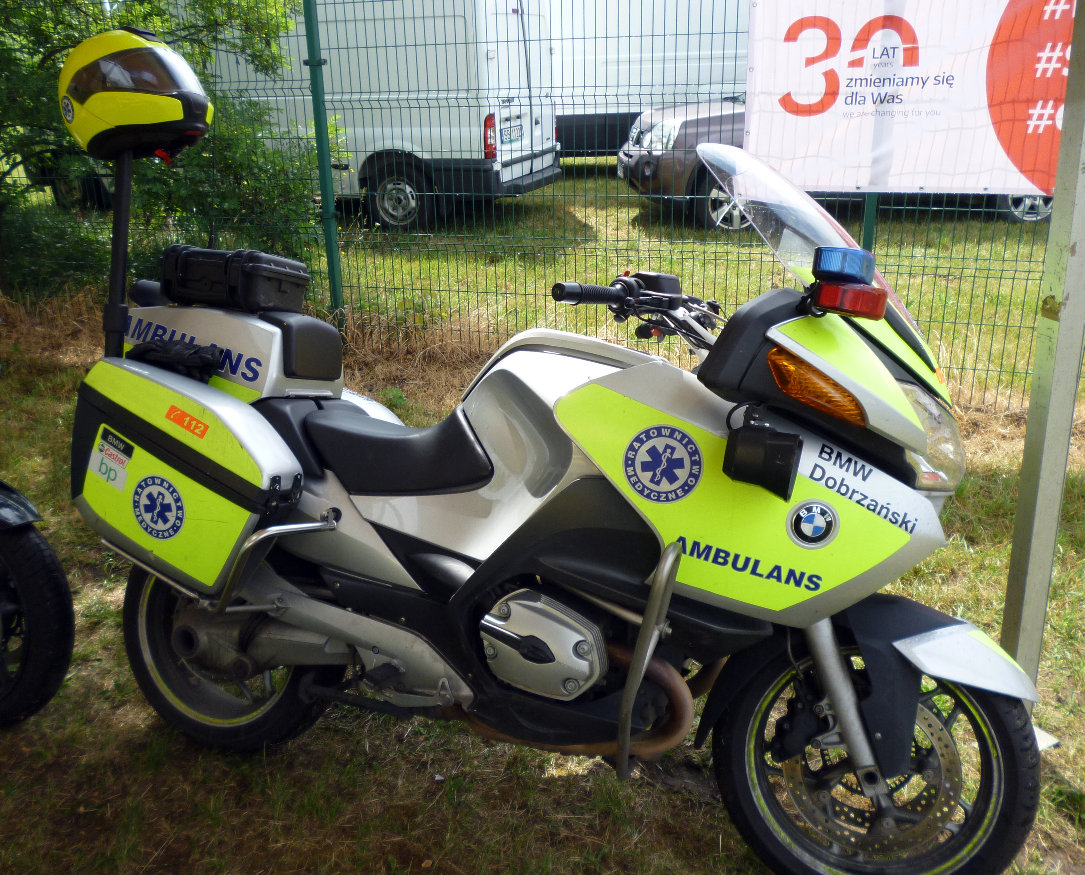 Motorcycle ambulance BMW RT 1200 in Kraków, Poland